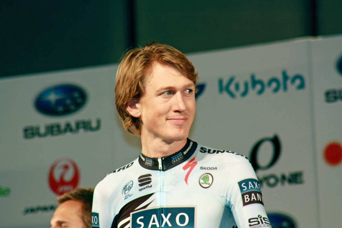 Gustav Larsson, Japan Cup Cycle Road Race 2011 team presentation in Utsunomiya.